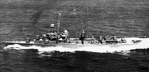 The U.S. Navy destroyer USS Beale (DD-471) underway in 1944 with all guns trained to starboard.